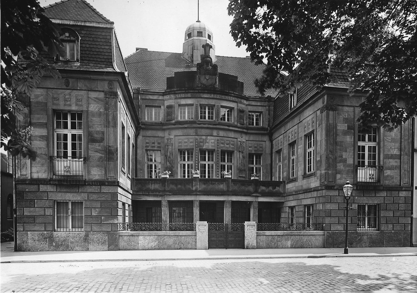 Corpshaus der Saxonia Hannover